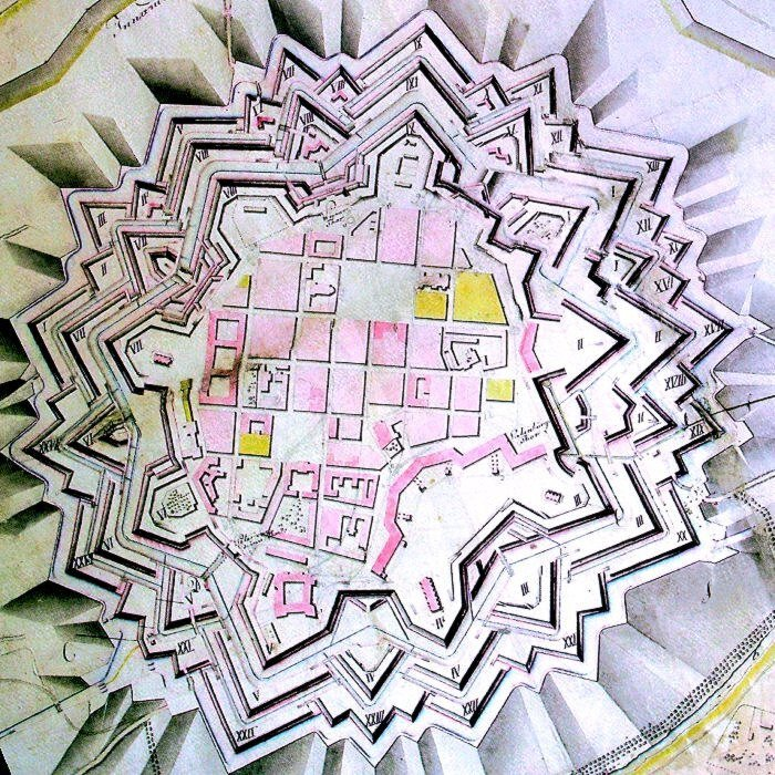 Plan of fortifications of Timișoara, 1808.